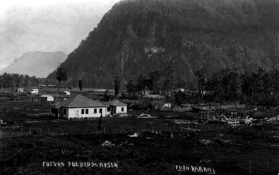 Posiblemente una de las primeras fotografias de la naciente ciudad de Puerto Aysén